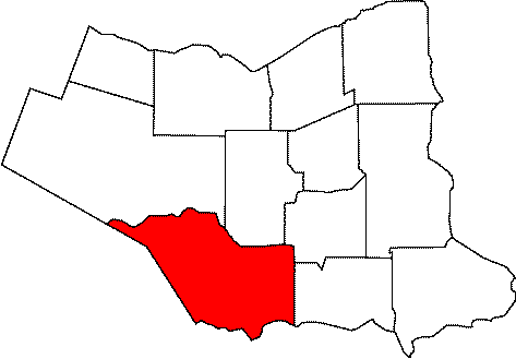 Map of Wainfleet, Ontario